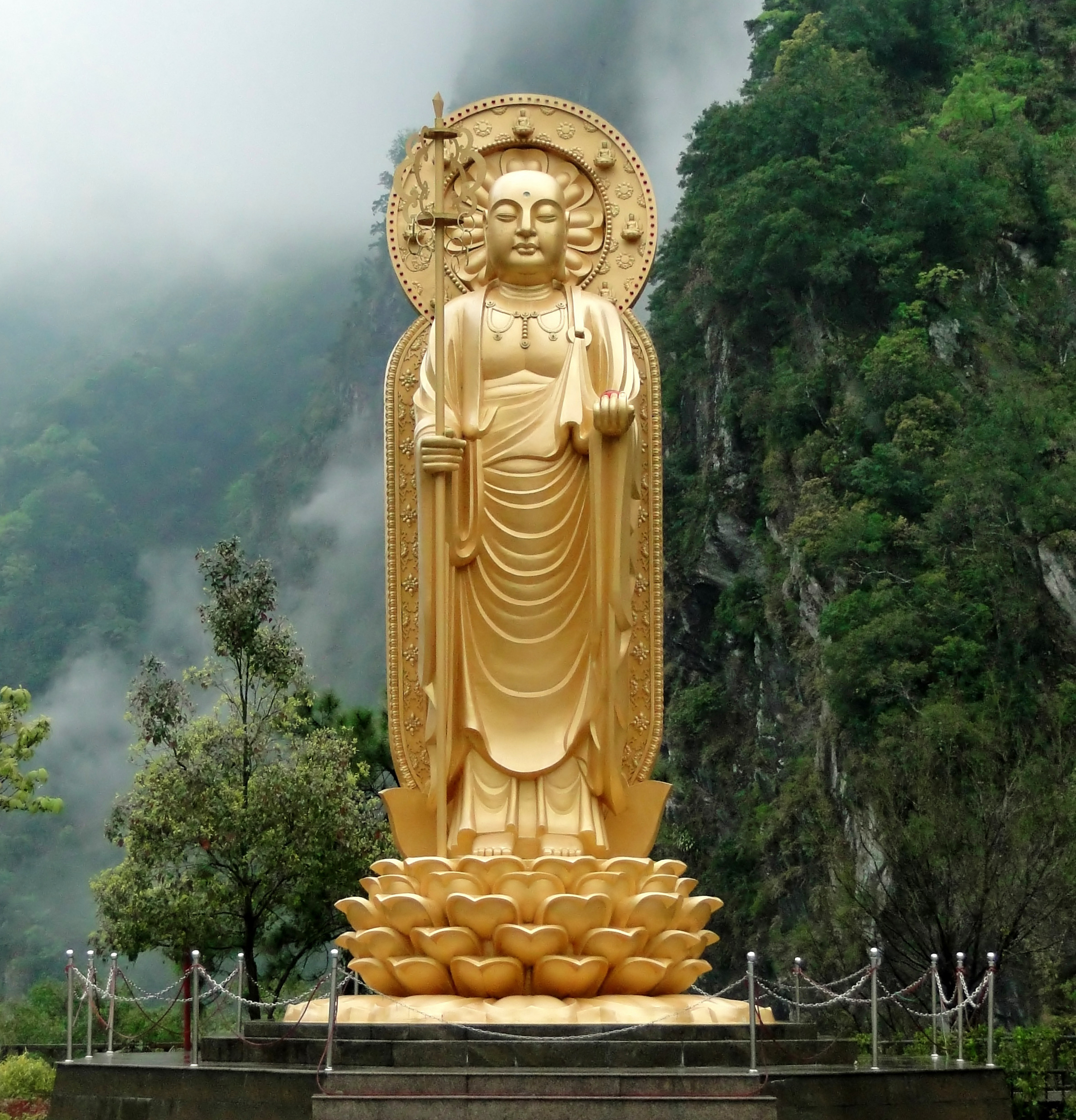 Earth Store (Ksitigarbha) Bodhisattva statue in Hsiang-Te Temple, Tiangsan, Taiwan